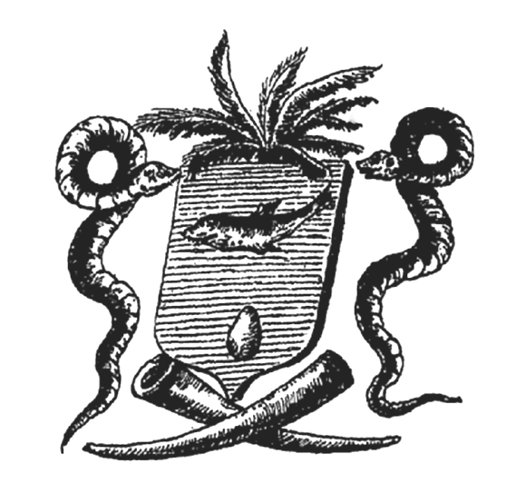 The Coat of Arms of Béhanzin – painted on victory panels which were given to him by the English. / The shark (Béhanzin) exiting from the egg.